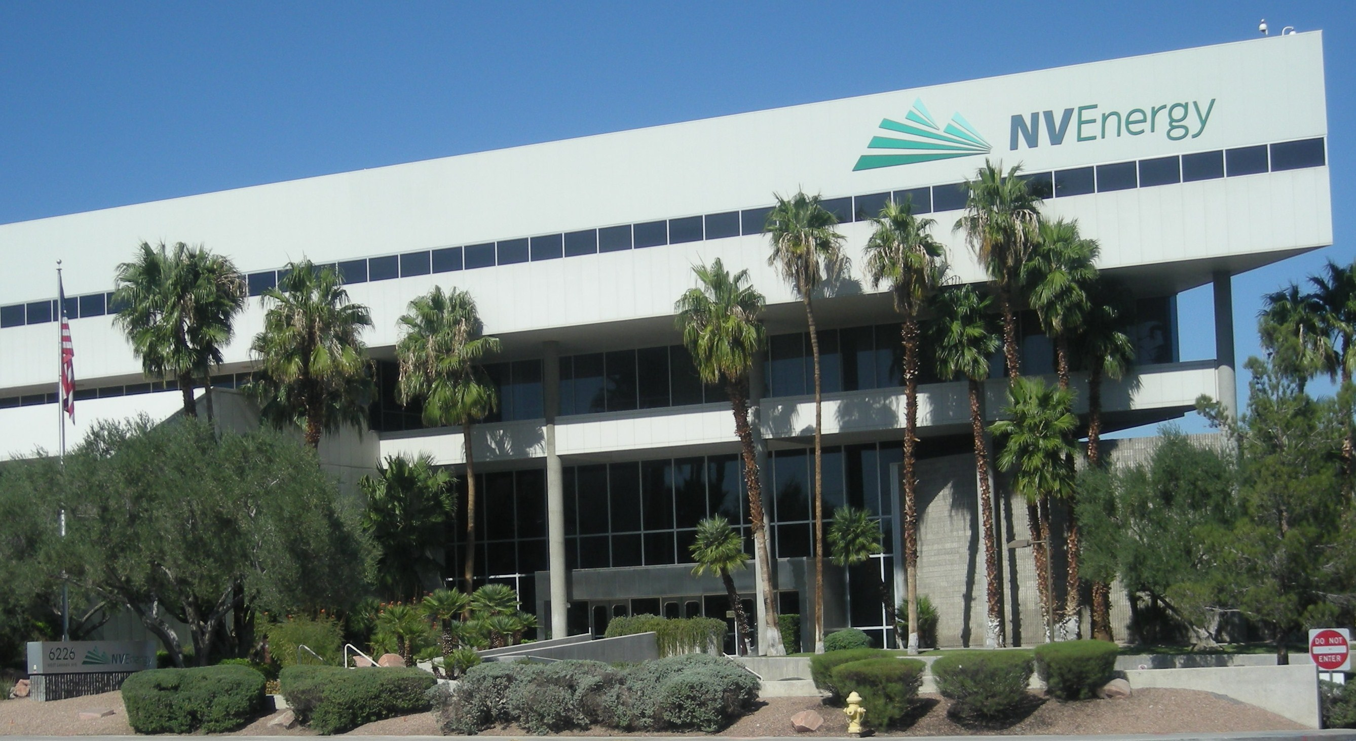 NV Energy corporate headquarters in Las Vegas, Nevada, USA